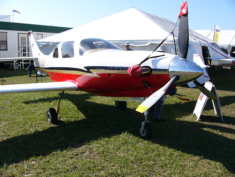 I took this photo of a Lancair Propjet at Sun 'n Fun 2004